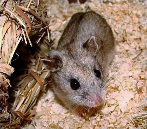 Chinese hamster example